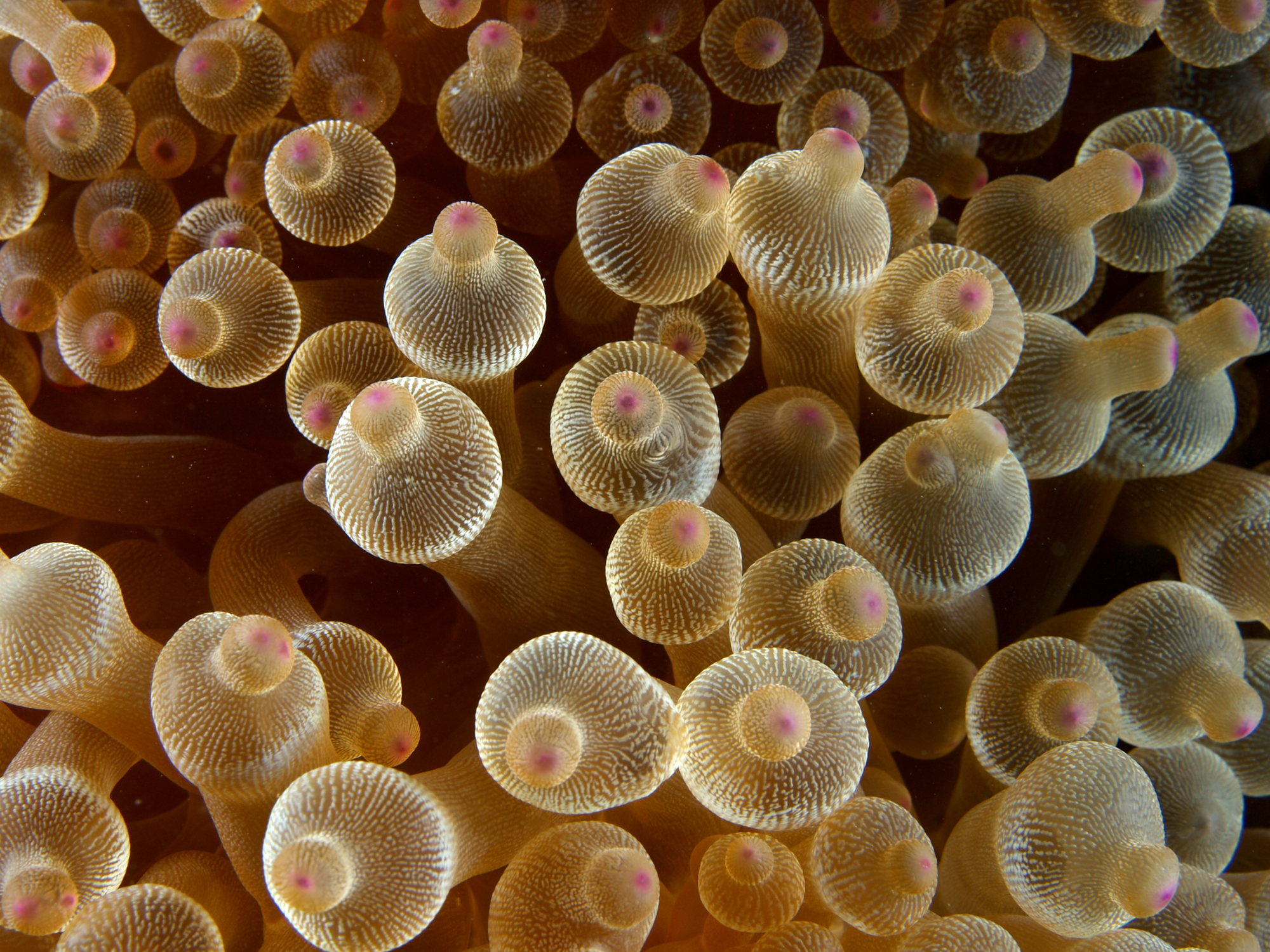 Entacmaea quadricolor (Bubble tip anemone).